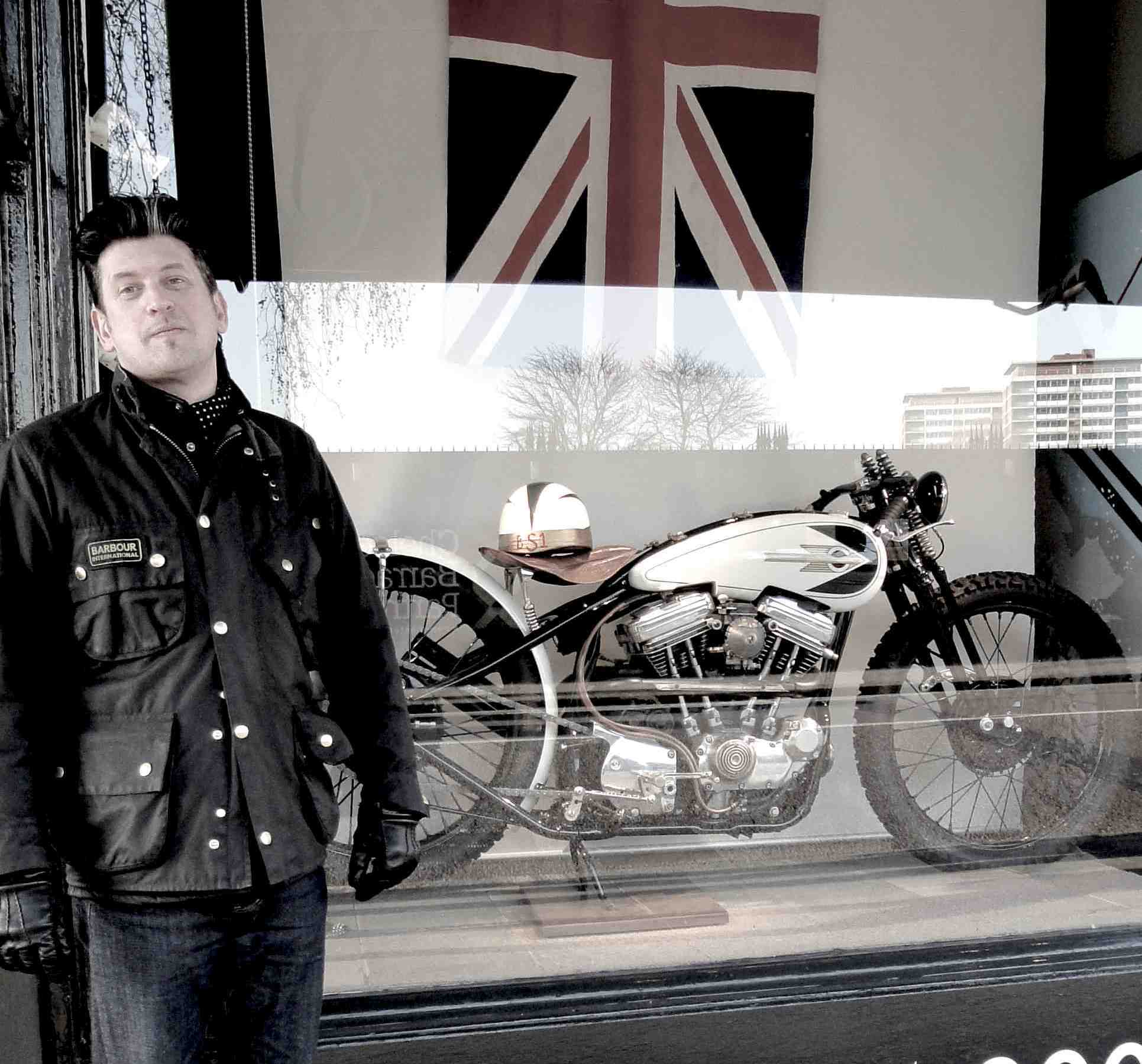 Conrad Leach in front of the Gauntlett Galler, Pimlico Road, London; his 'BS1' Custom Motorcycle on display.